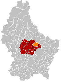 Own edit of Kanton MerschLocatie.png